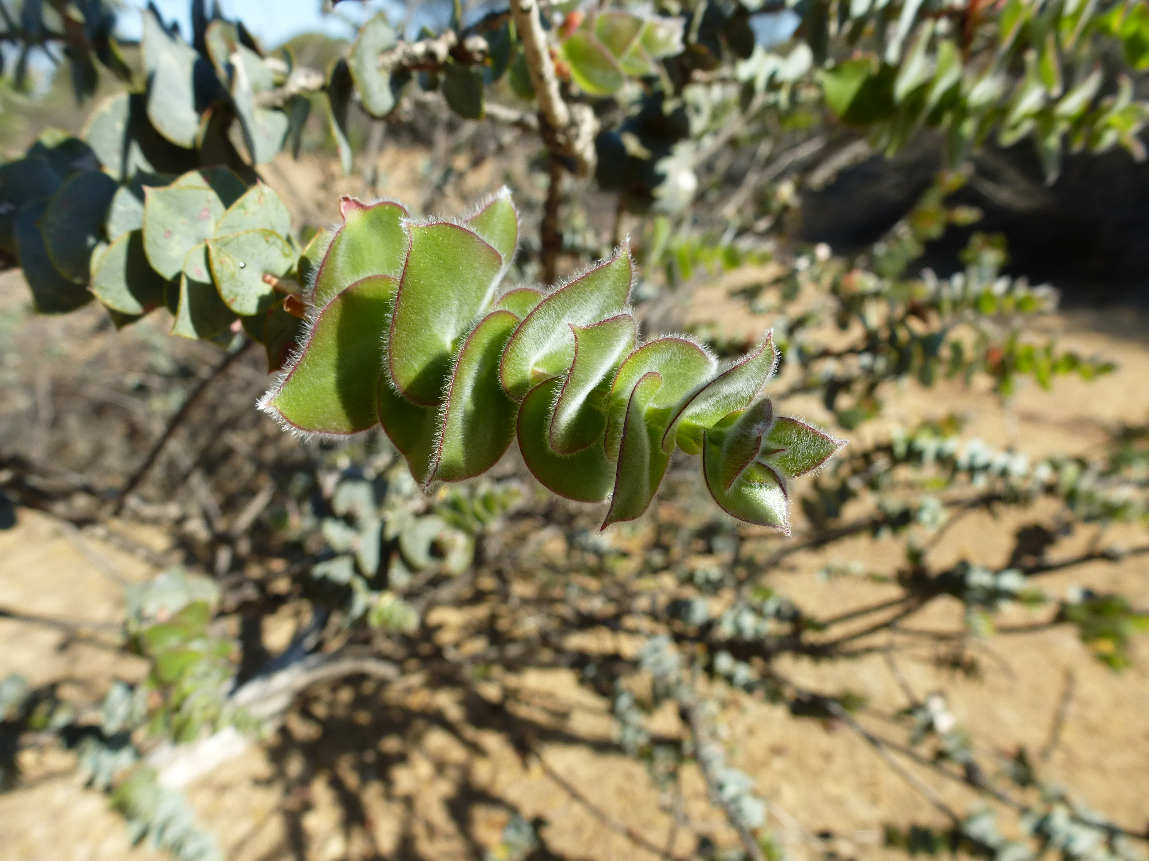 Melaleuca cordata growing near Perenjori